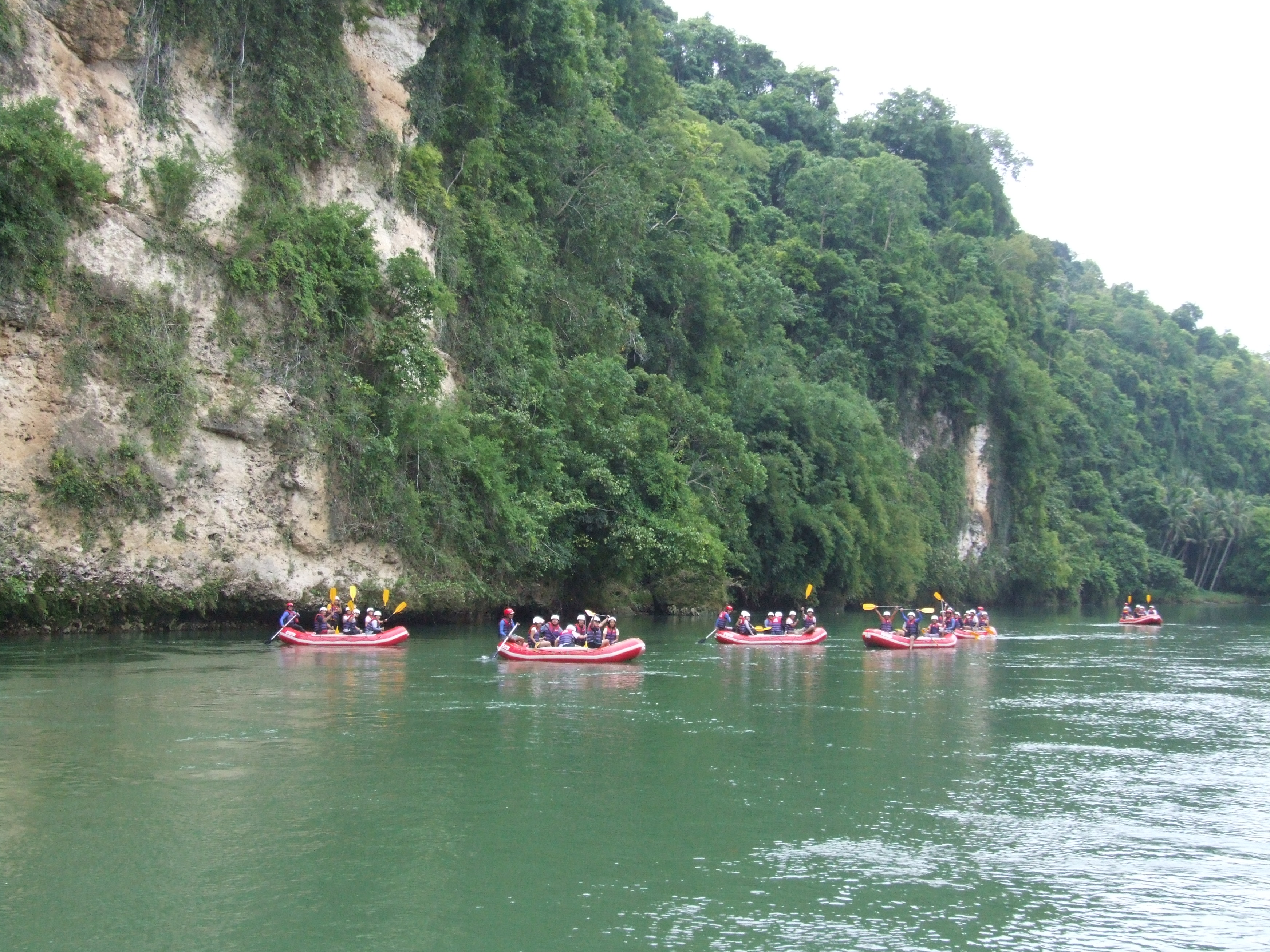 Whitewater rafting on the Cagayan River in the Philippines. Near Cagayan de Oro City, on Mindanao.